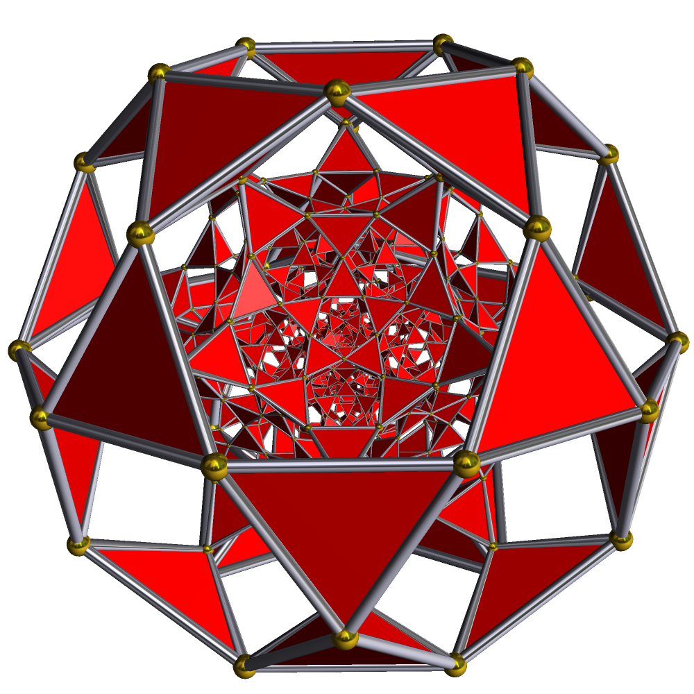 Rectified_120-cell